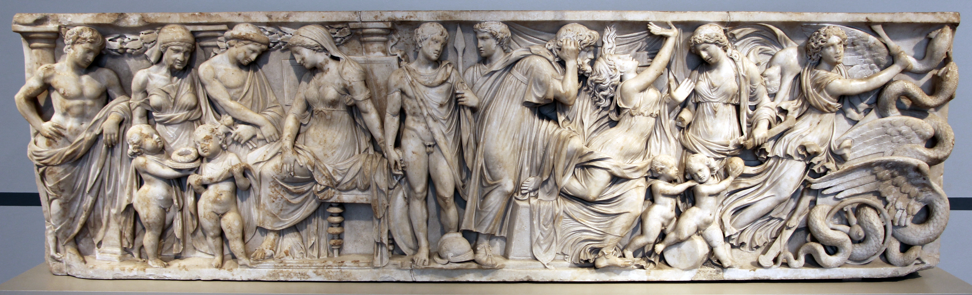 Ancient Roman reliefs in the Antikensammlung Berlin